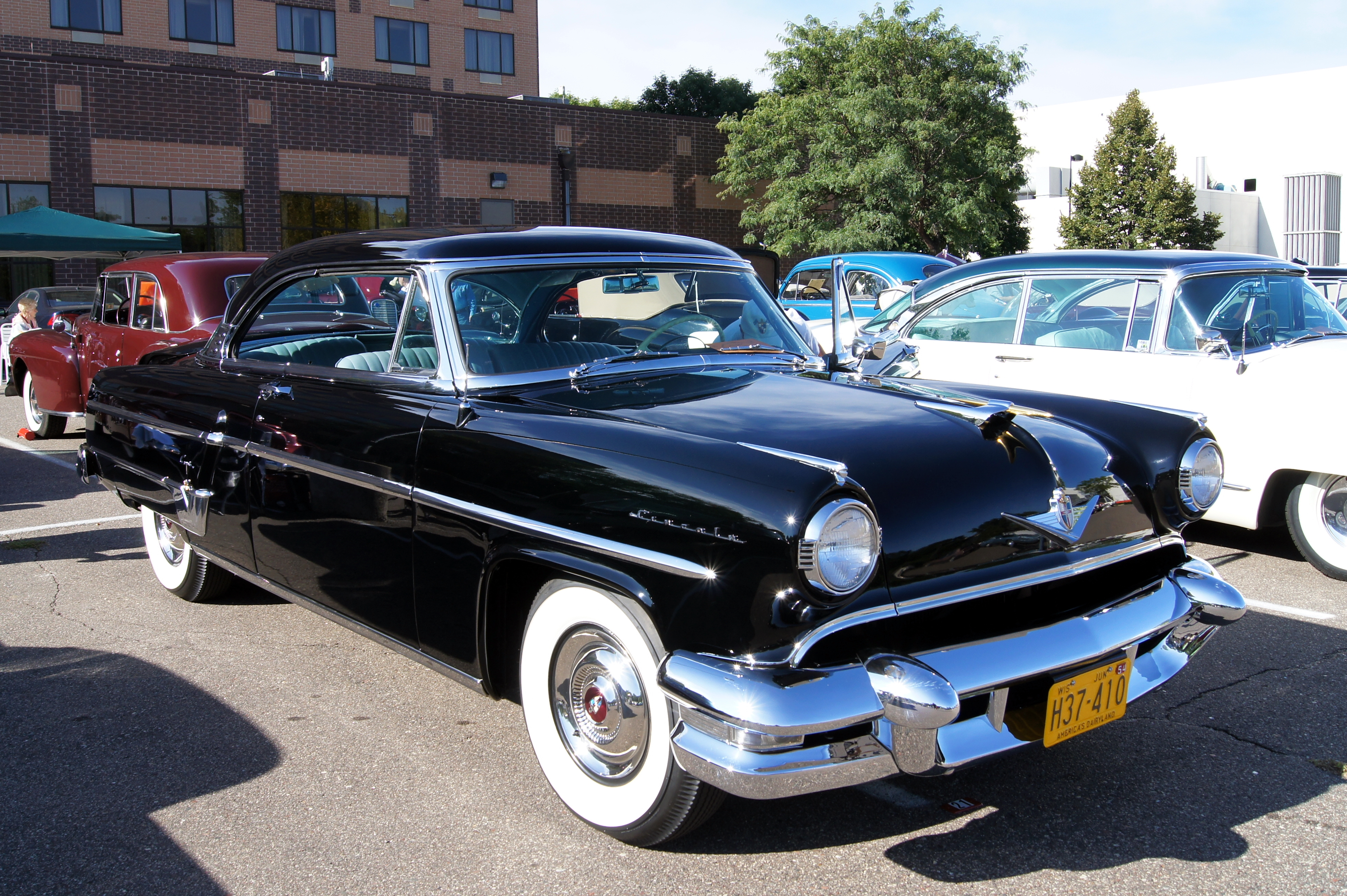 Lincoln & Continental Owners Club 2012 Mid-America National Meet August 15 - 19, 2012 Park Plaza Hotel, 4460 West 78th Street Circle Bloomington, Minnesota Hosted by the North Star Region Click link below for more Car pictures